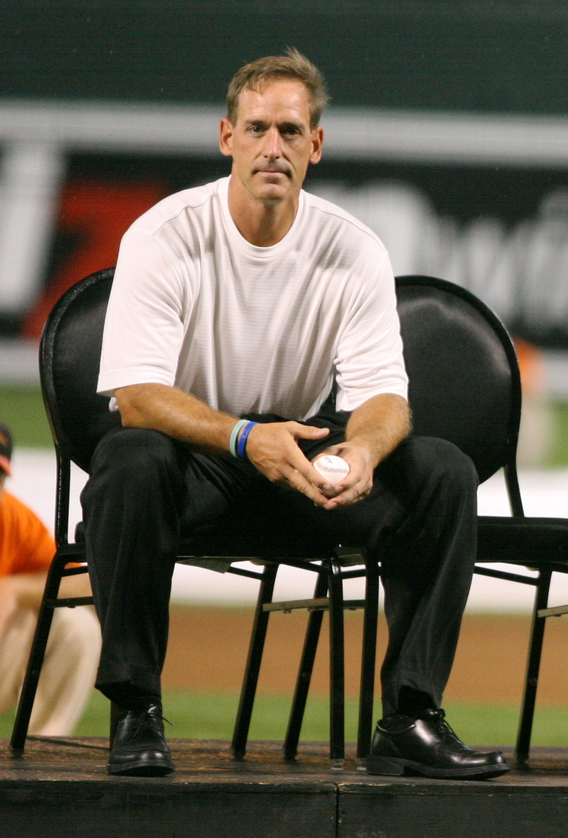 B. J. Surhoff